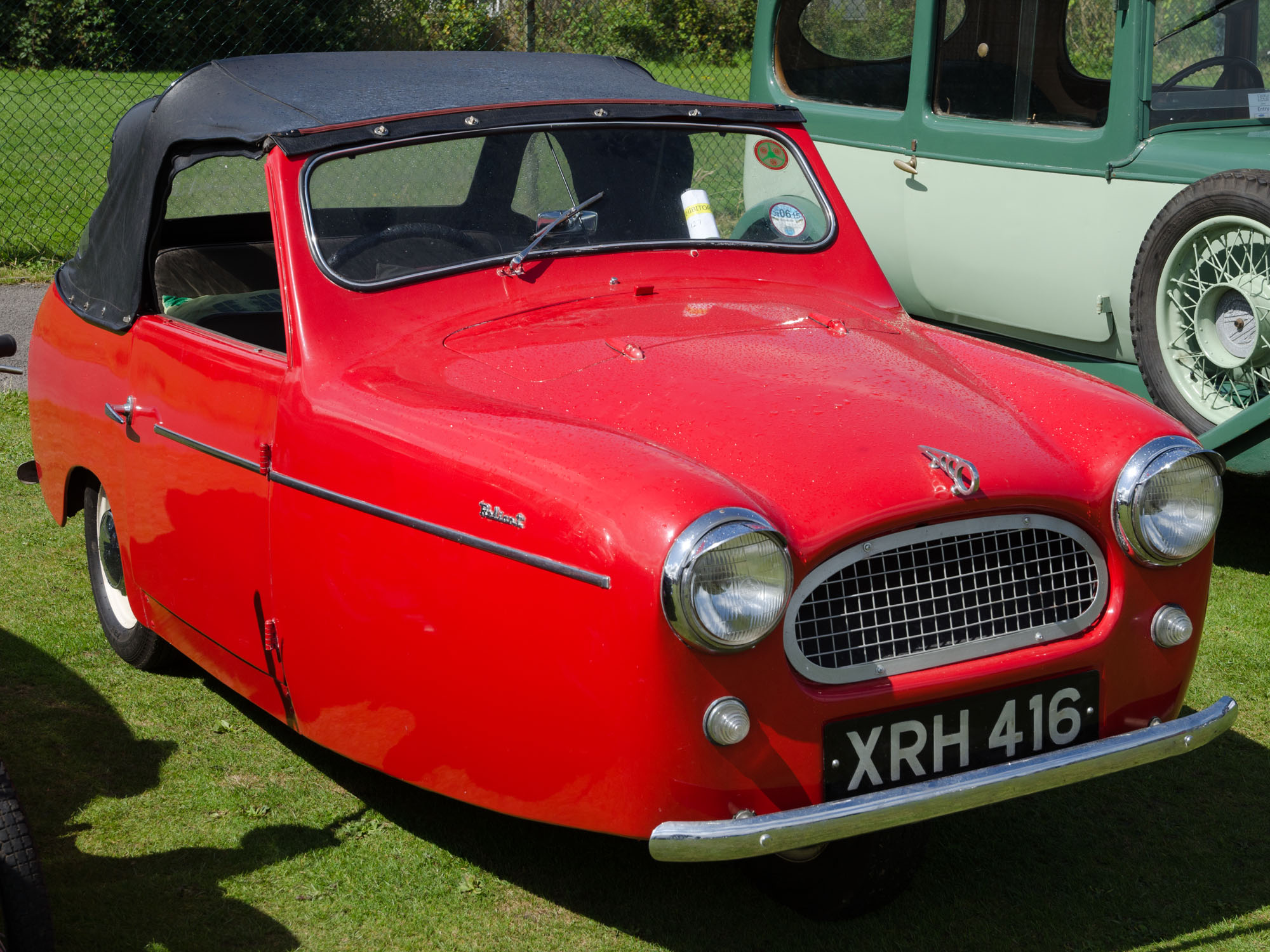 Burley in Wharfedale Classic Car Show 17/08/2014